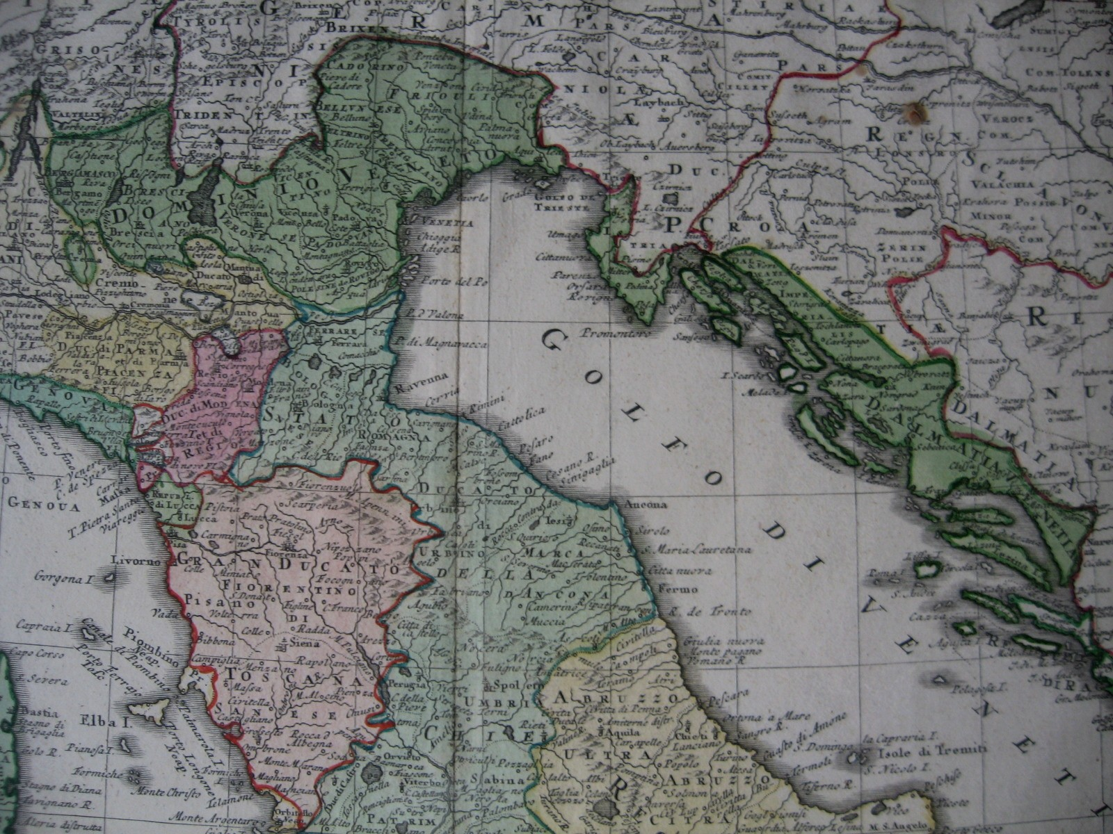 The Republic of Venice (in dark green) and neighboring states in the mid-18th century. Not shown are the Ionian Islands, which also belonged to The Most Serene Republic. he pale green territories belonged to the Papal States (eastern and central Italy) and the Republic of Genoa (in the extreme west of the map). Cropped from a map of Italy published by Homann Heirs in 1742. T